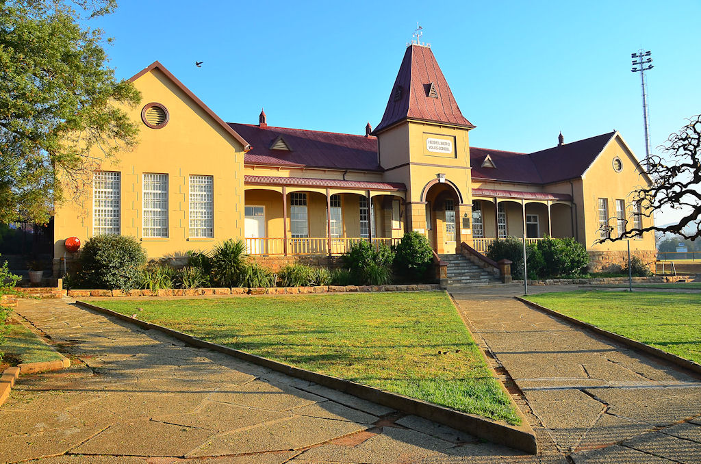 The "Volkskool" was founded in 1903 at a meeting held in the basement hall of the Dutch Reformed Church, Heidelberg. This school building was erected in 1907 in memory of the inhabitants of the District of Heidelberg, who lost their lives during the Anglo Type of site: School .